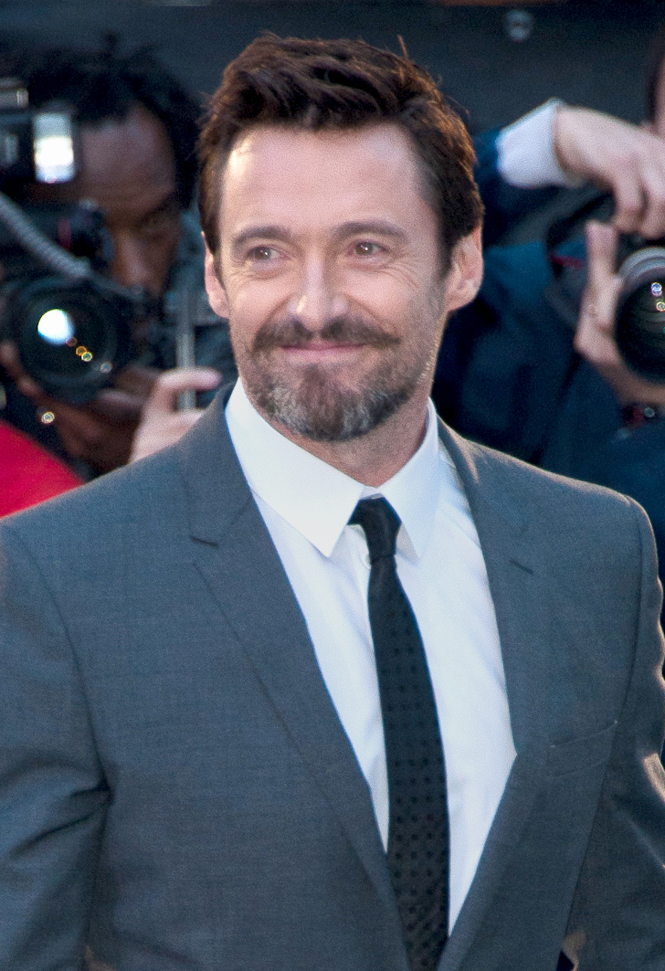 Hugh Jackman at the Odeon Leicester Square premiere of Noah, 31 March 2014